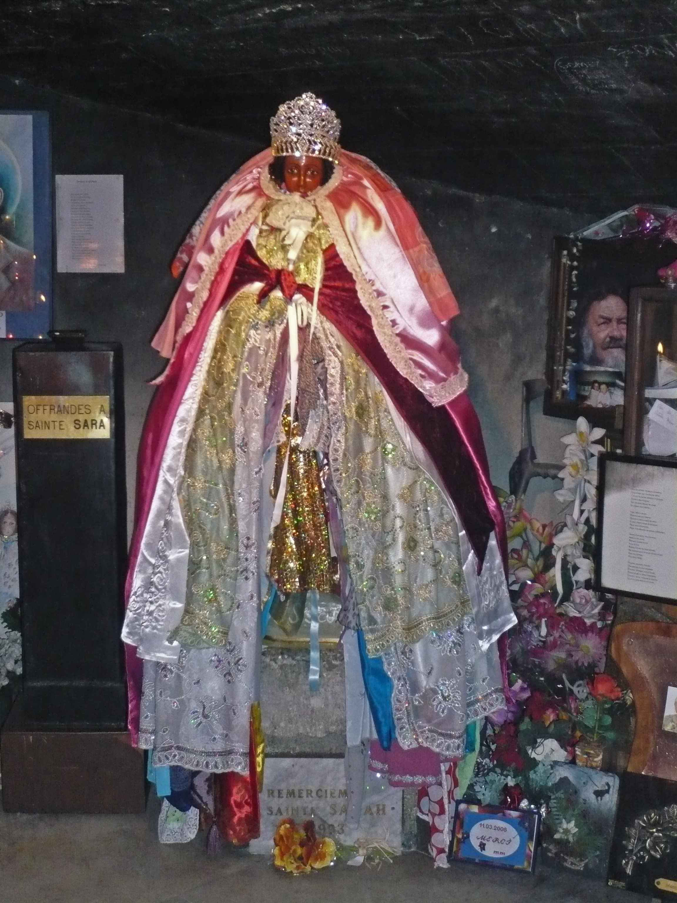 Each year at the Annual Gathering of "gypsies" Saint Sara is coated with a new dress. (In the photo this from 2007).